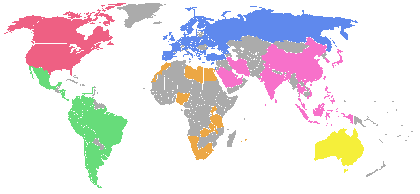 Member countries, color-coded by continental confederation, of the World Pool-Billiard Association (WPA), updated as of November 2011. Where sources differ, it has been considered more likely that the relevant continental organization has included or excluded a country (based on new information, such as a national group newly joining that confederation), than the world source being correct based on information somehow more current than the "ground truth" being reported by its own constituent confederations. I.e., the WPA itself is unlikely to have the freshest data.